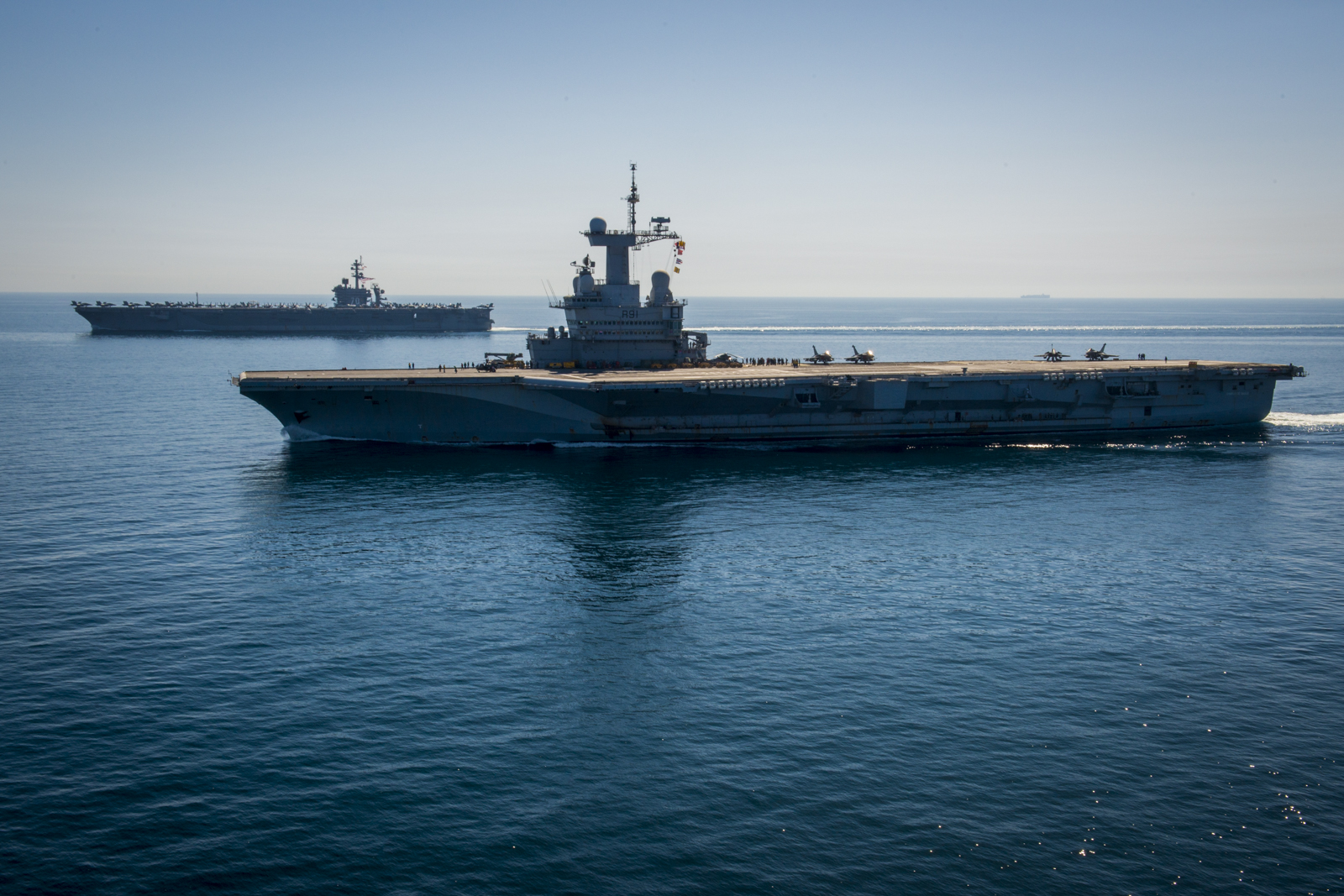 The U.S. Navy aircraft carrier USS Carl Vinson (CVN-70), left, and the French aircraft carrier Charles de Gaulle (R91) transit the Northern Arabian Gulf. Carl Vinson was deployed in the U.S. 5th Fleet area of responsibility supporting Operation Inherent Resolve, strike operations in Iraq and Syria as directed, maritime security operations, and theater security cooperation efforts in the region.